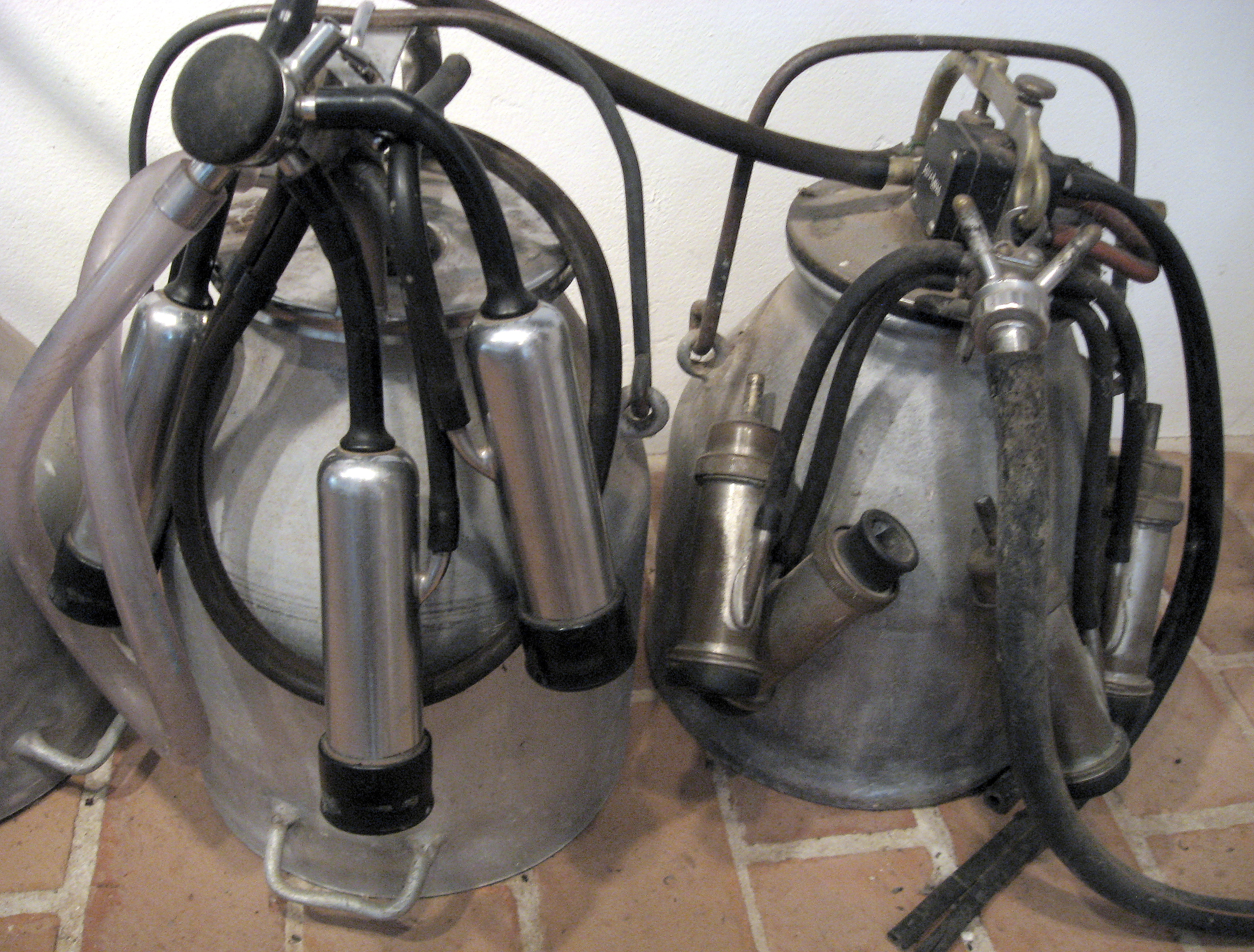 Milking machines